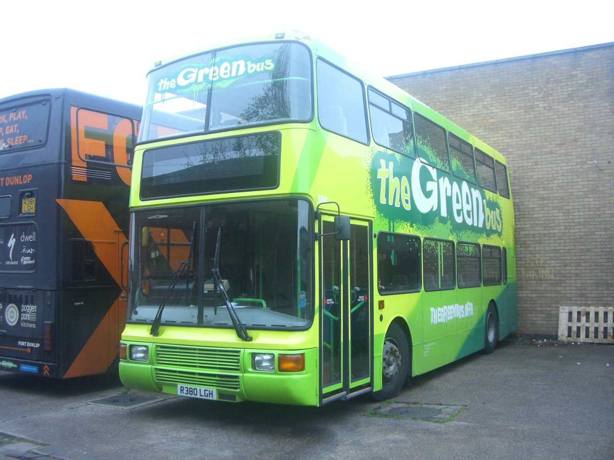 R380 LGH seen with sister vehicle, R381 LGH, parked at Connect Buses yard in Birmingham on 2nd November 2008. Owned by the school bus company The Green Bus